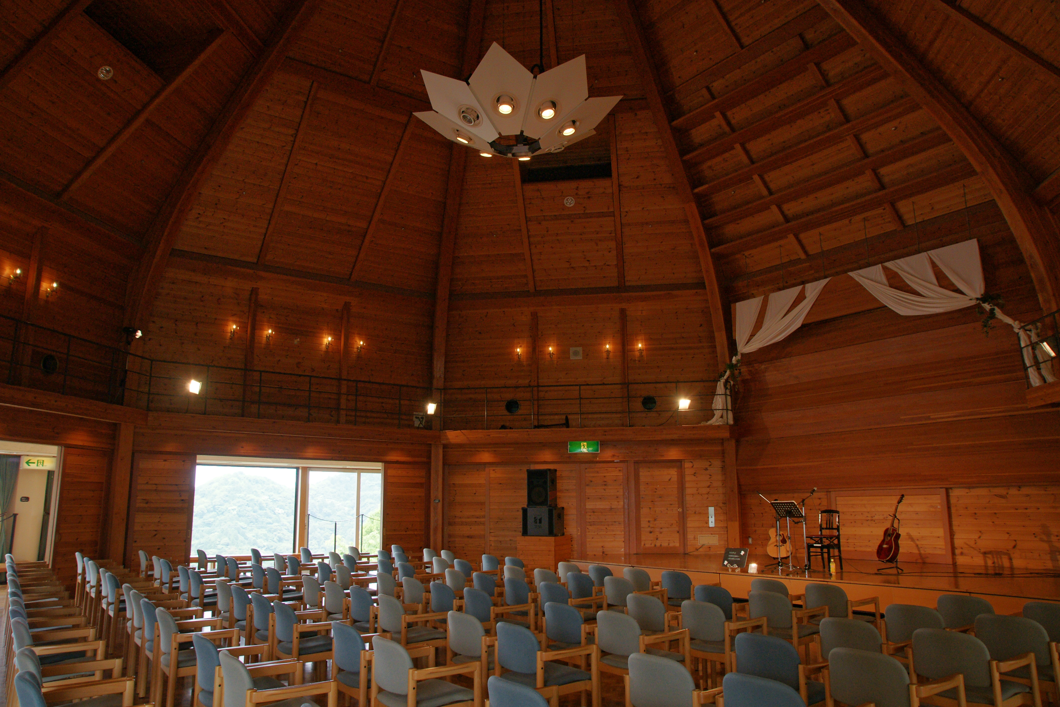 Nunobiki Herb Garden in Kobe, Hyogo prefecture, Japan